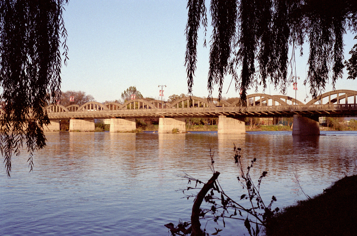 A view of the Argyle St. bridge over the Grand River in Caledonia Ontario. Photo By Michael McGregor